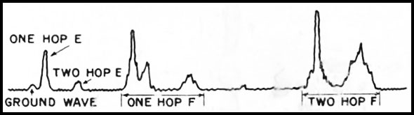 Illustration of the LORAN-A radio signal received from a single station. The image shows an approximate display of what would appear on the operator's CRT - a complex mix of direct and reflected signals.